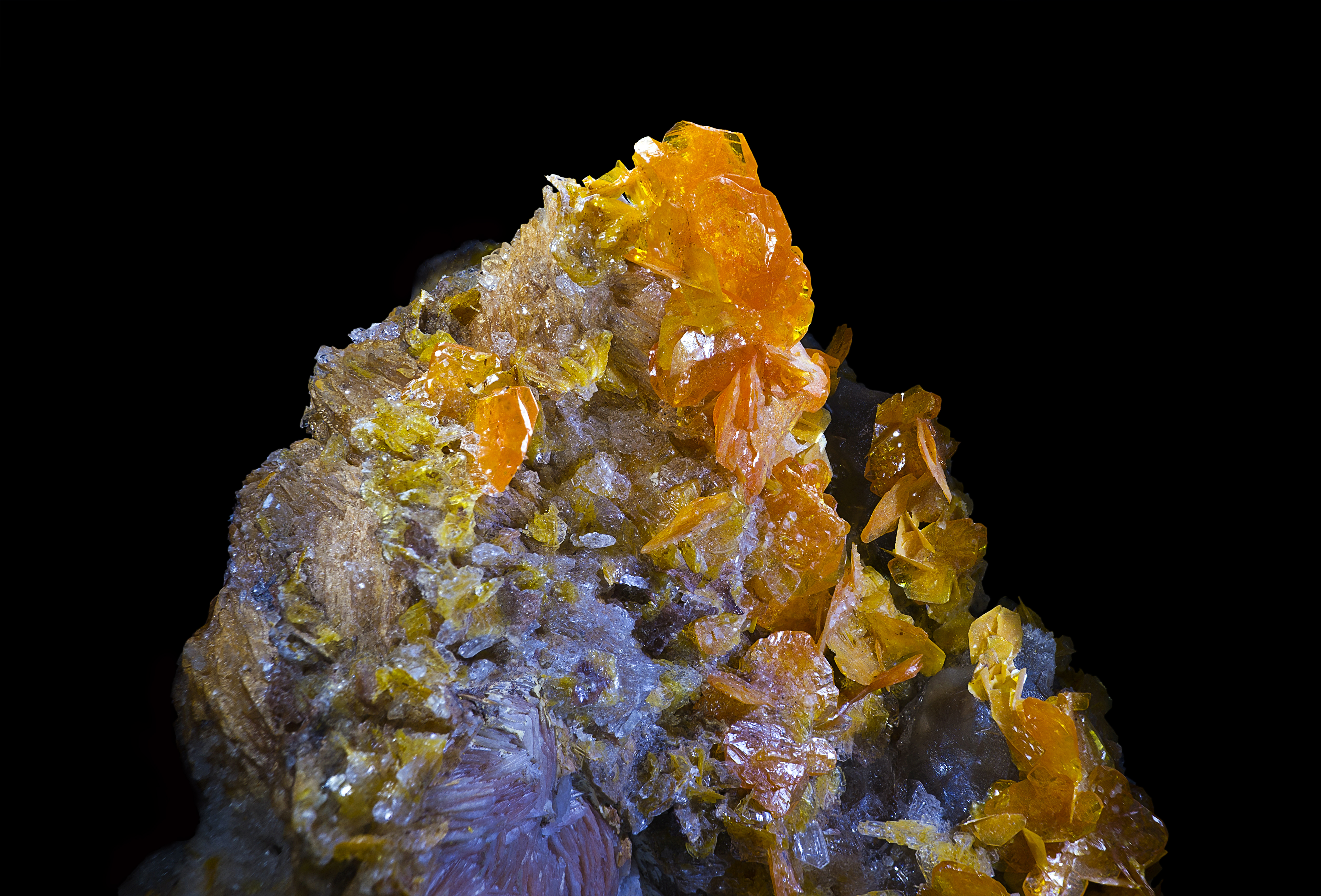 Wulfenite Locality : Mibladen Mine, Mibladene (Mibladén; Mibladan; Miblanden), Upper Moulouya lead district, Midelt, Khénifra Province, Meknès-Tafilalet Region, Morocco Size: 10 x 8.0 x 6 cm.